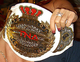 TNA Women's Knockout Championship Belt